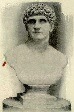 From the bust now in the Vatican, Vatican City. Mark Antony.